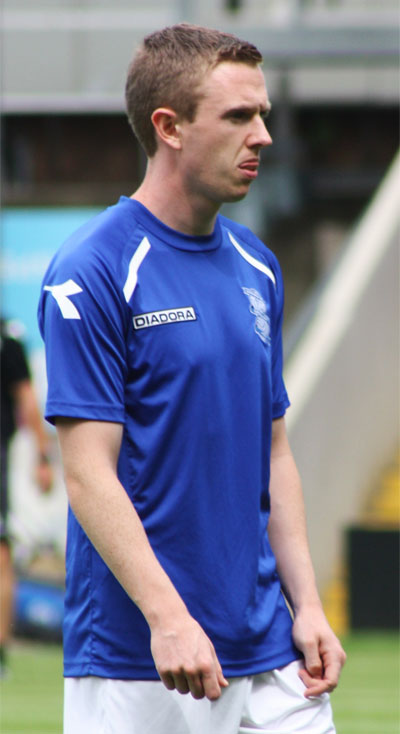 Shane Ferguson vs Hull City in 2013 pre-season.